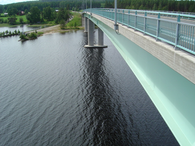 Vehmersalmi bridge in Kuopio, Finland